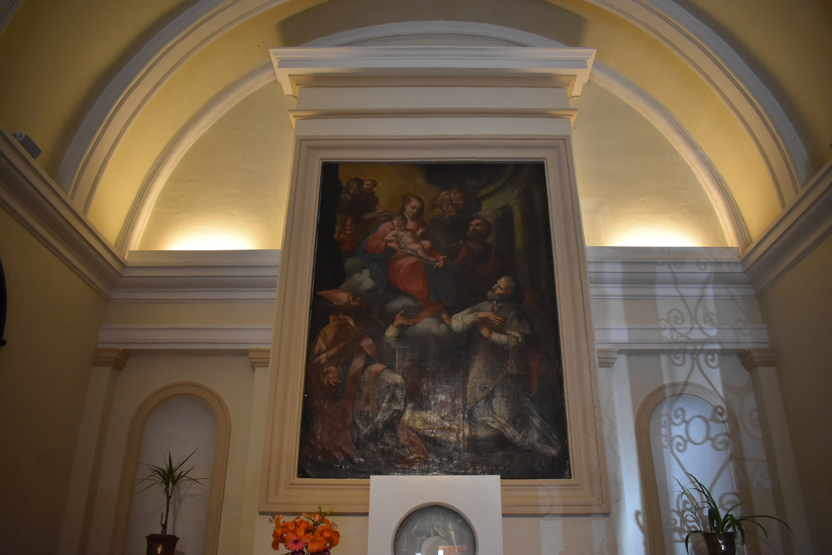 St Martin Church, Baħrija